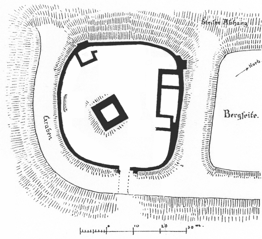 Floor plan of Castle Hardenberg in Velbert, Germany